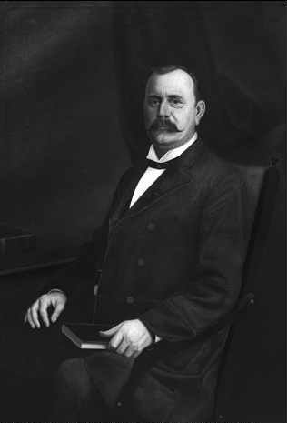 Portrait in oil of William Burford (1845-1925) by his son F.R. Burford. DATE 1892